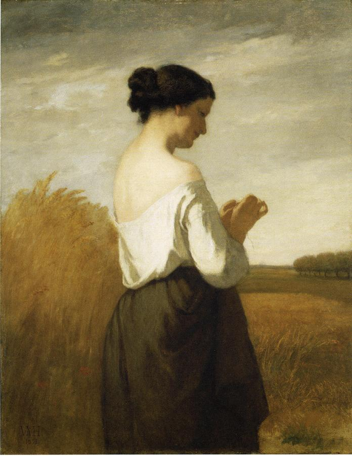 Portrait of La Marguerite, oil on canvas, by Boston artist William Morris Hunt. Now in the permanent collection of the Museum of Fine Arts, Boston.